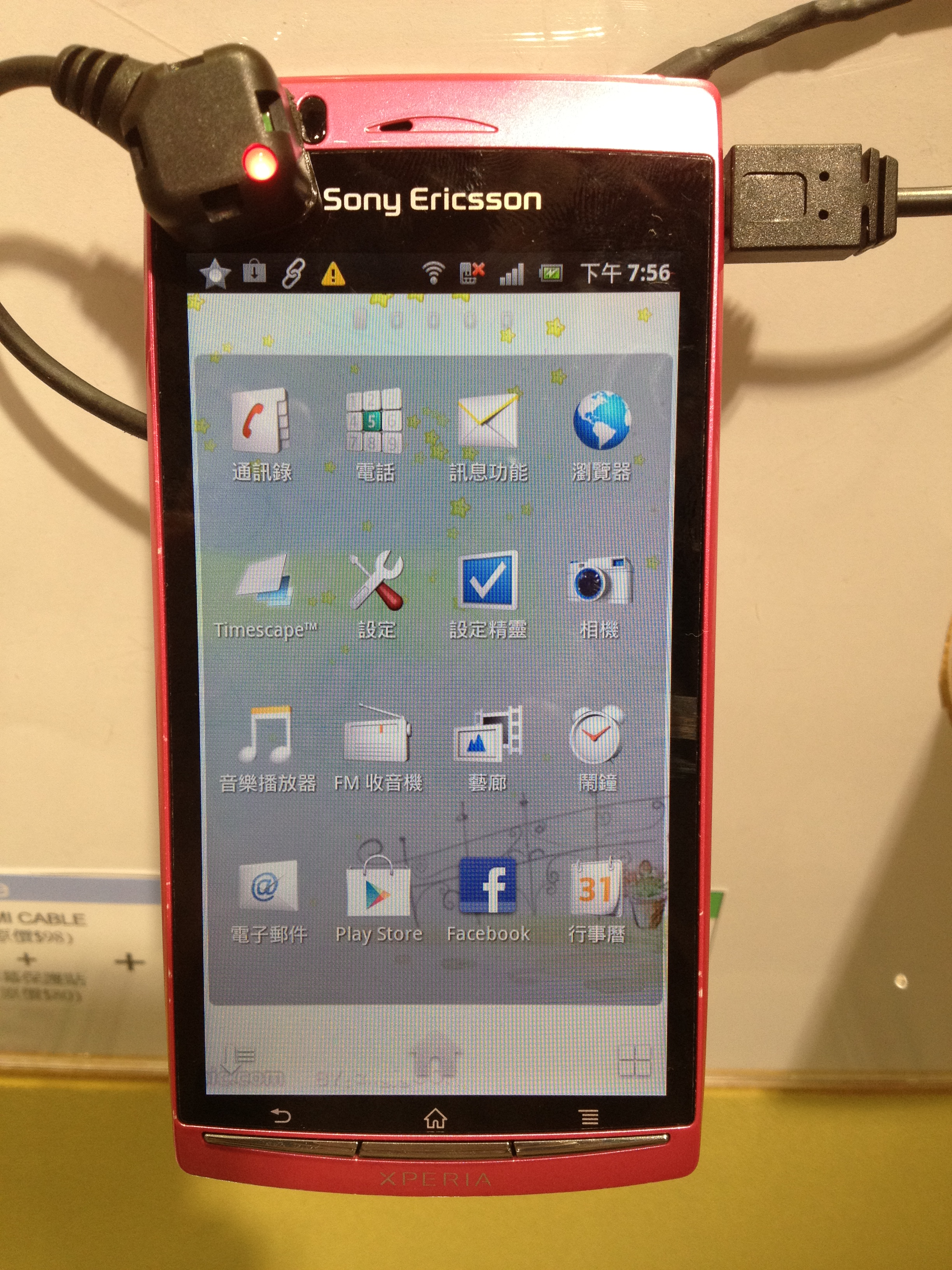 Sony Ericsson Xperia arc S, running Android 2.3 Gingerbread